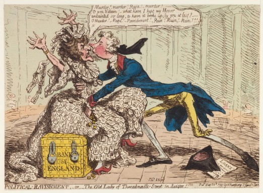 Political Ravishment, or The Old Lady of Threadneedle-street in Danger!, a satirical cartoon attacking Prime Minister William Pitt the Younger's decision on 26 January 1797 to temporarily forbid the Bank of England from paying out in gold, having it issue banknotes instead. This cartoon is thought to be the origin of the nickname "Old Lady of Threadneedle Street" for the Bank of England. The male figure is William Pitt the Younger.